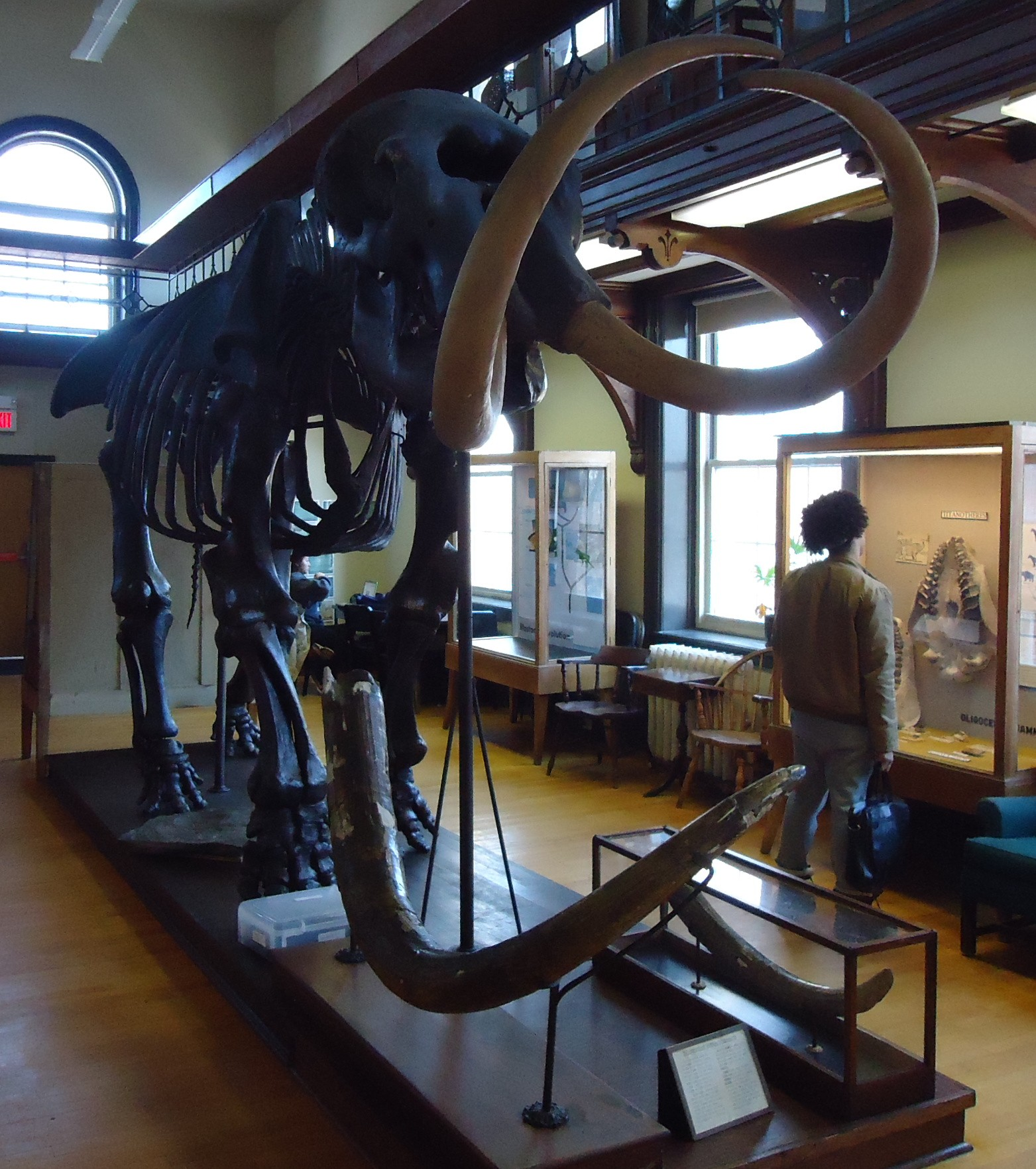 Exhibit in the Geology museum at Rutgers University in New Brunswick, New Jersey. Side view of mastodon.